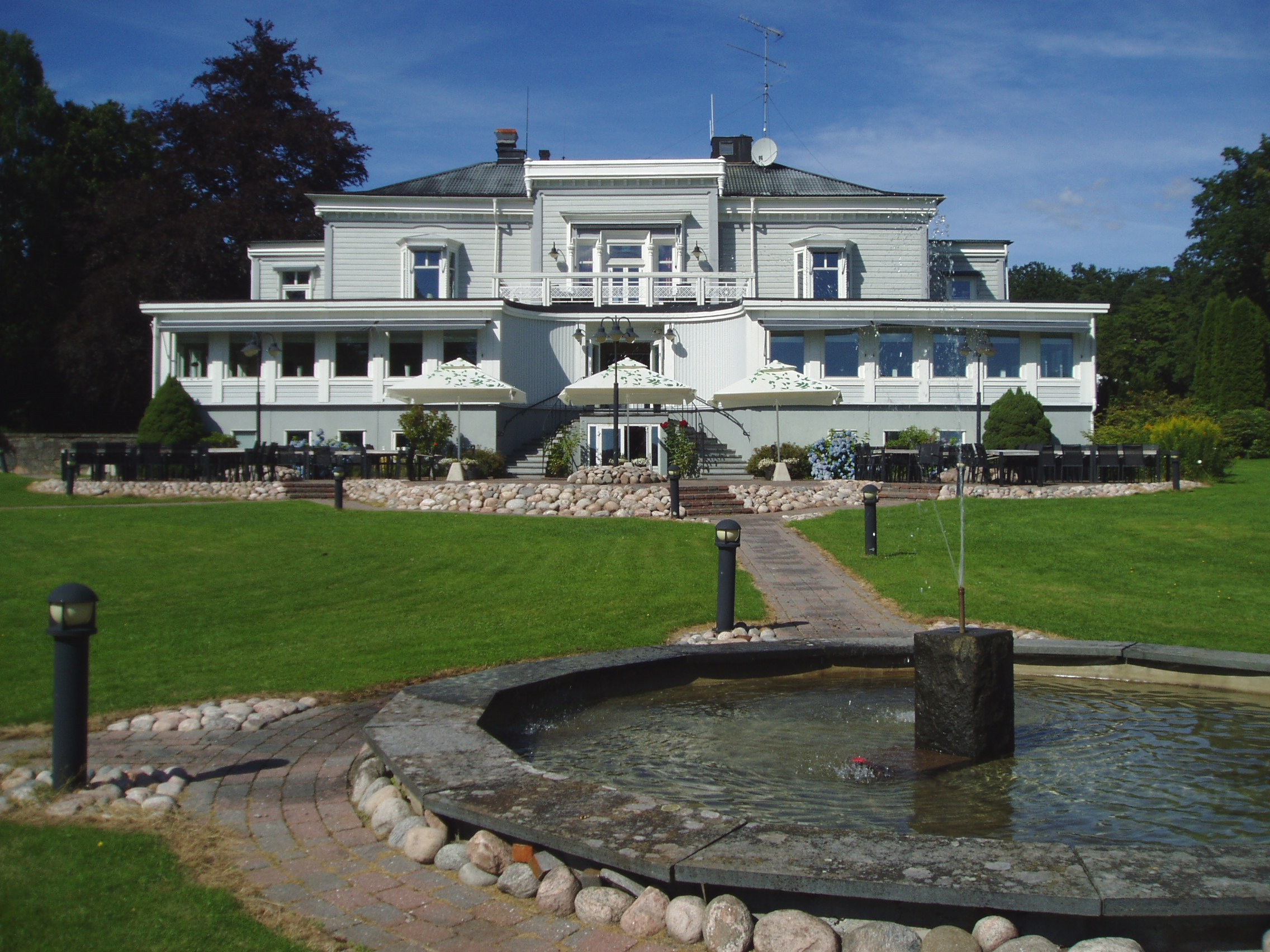 Aspenäs mansion, Lerum Municipality, main building